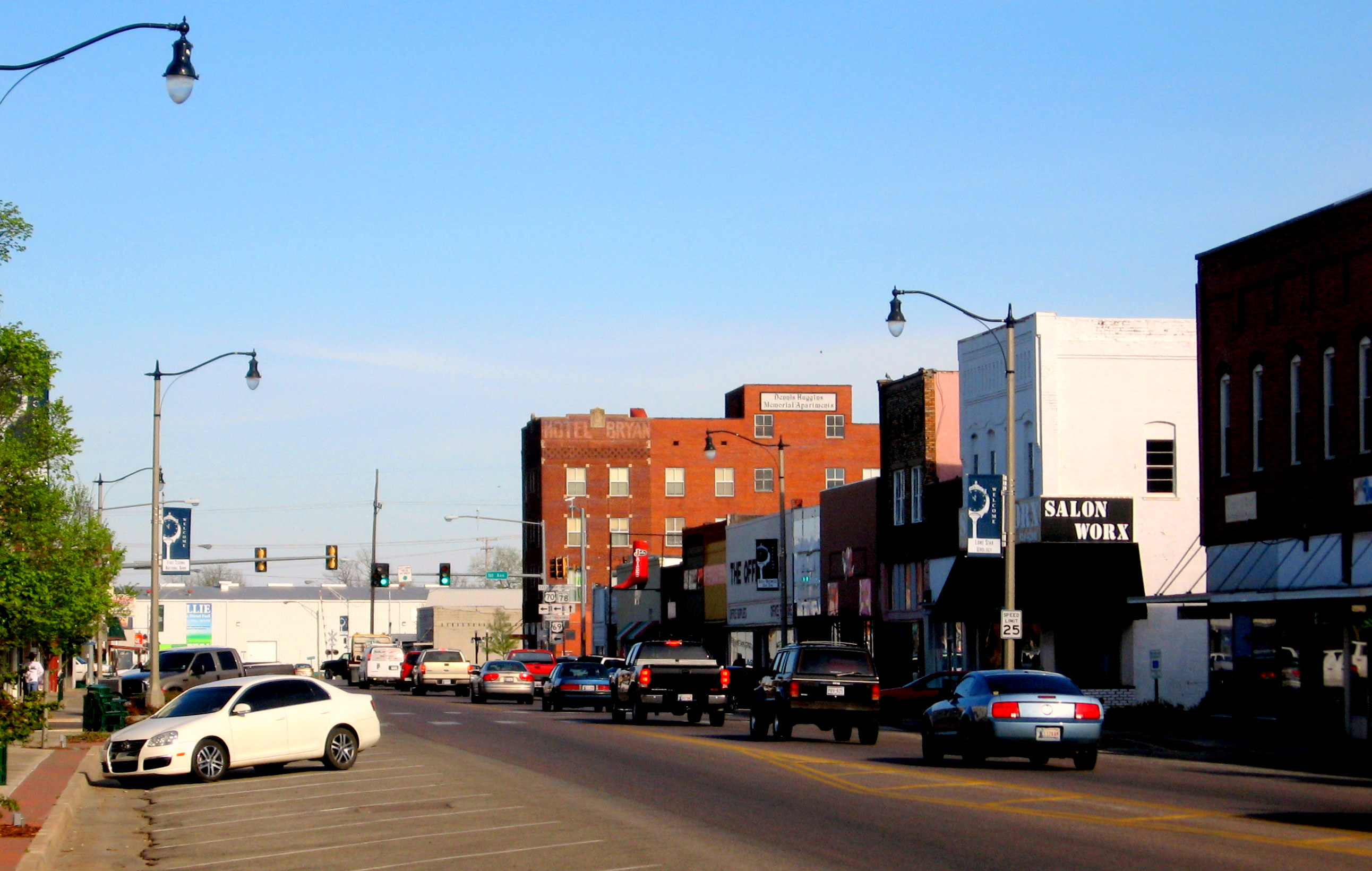 Looking east on Main Street in downtown Durant.